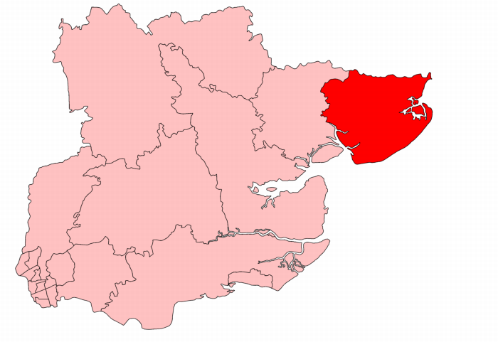 A map of Harwich constituency within Essex, as it existed from 1918 to 1950.